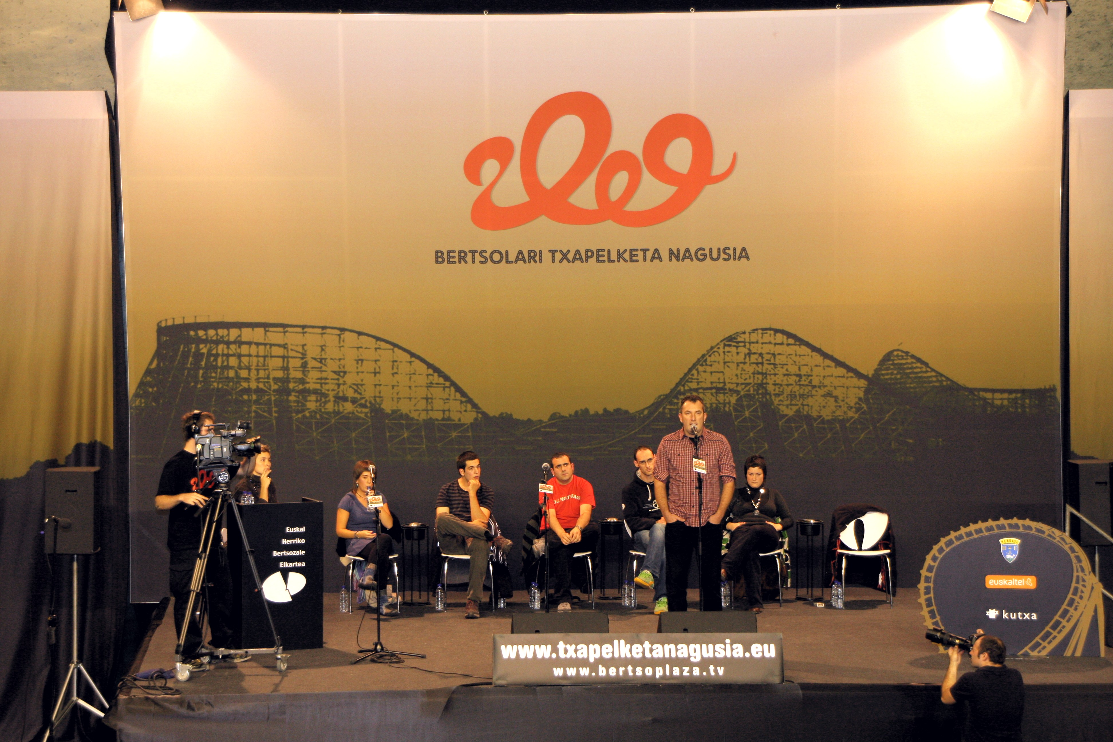 Main basque "bertsolari" championship.